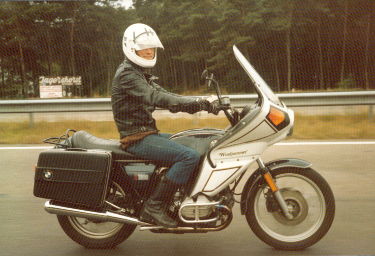 Motorcycle with a Vetter Windjammer after-market accessory fairing.